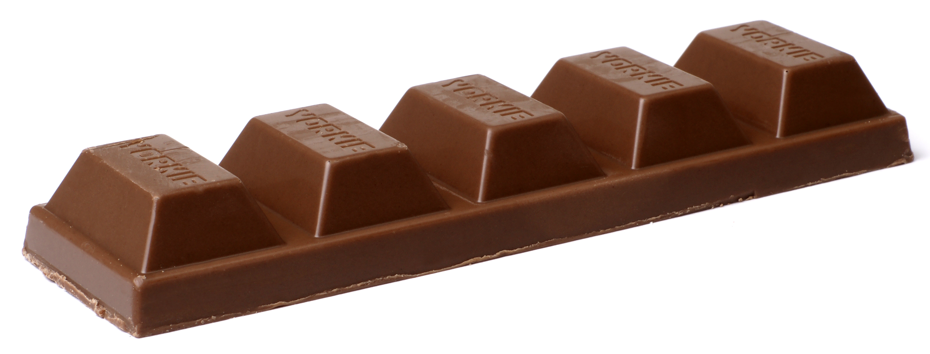 A Yorkie chocolate bar by Nestle and sold in the UK.